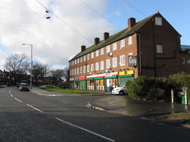 Neighbourhood Shops in Newall Green